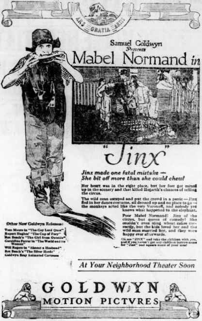 Newspaper ad for the American film Jinx (1919) with Mabel Normand, on page 2 of the February 21, 1920 Duluth Herald.